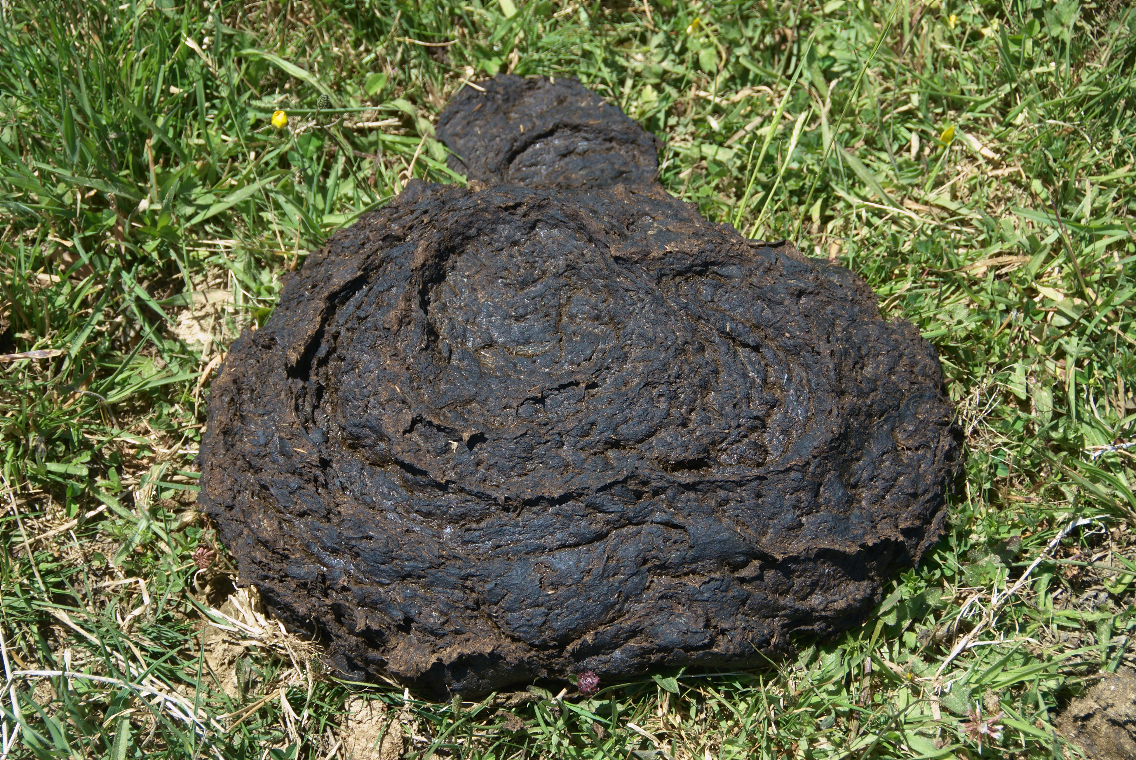 A cowpat - cow dung